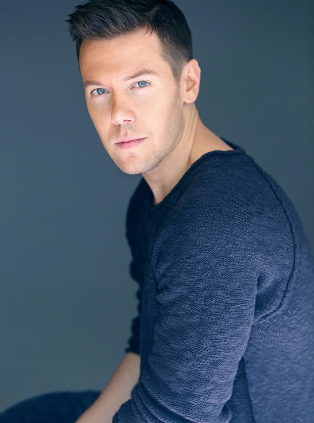 Benji Schwimmer - World Dance Champion, Master Teacher, Choreographer, Performer and Creative Director based in Los Angeles and New York